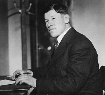 A young Jim Thorpe at a desk.